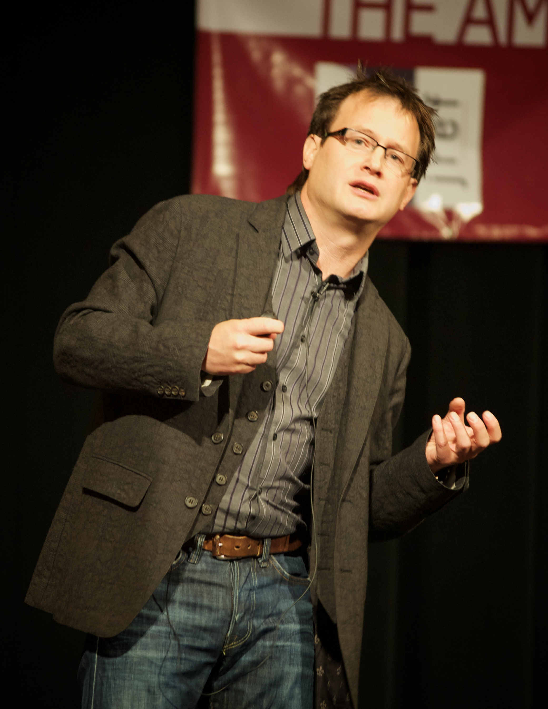 Bruce Hood